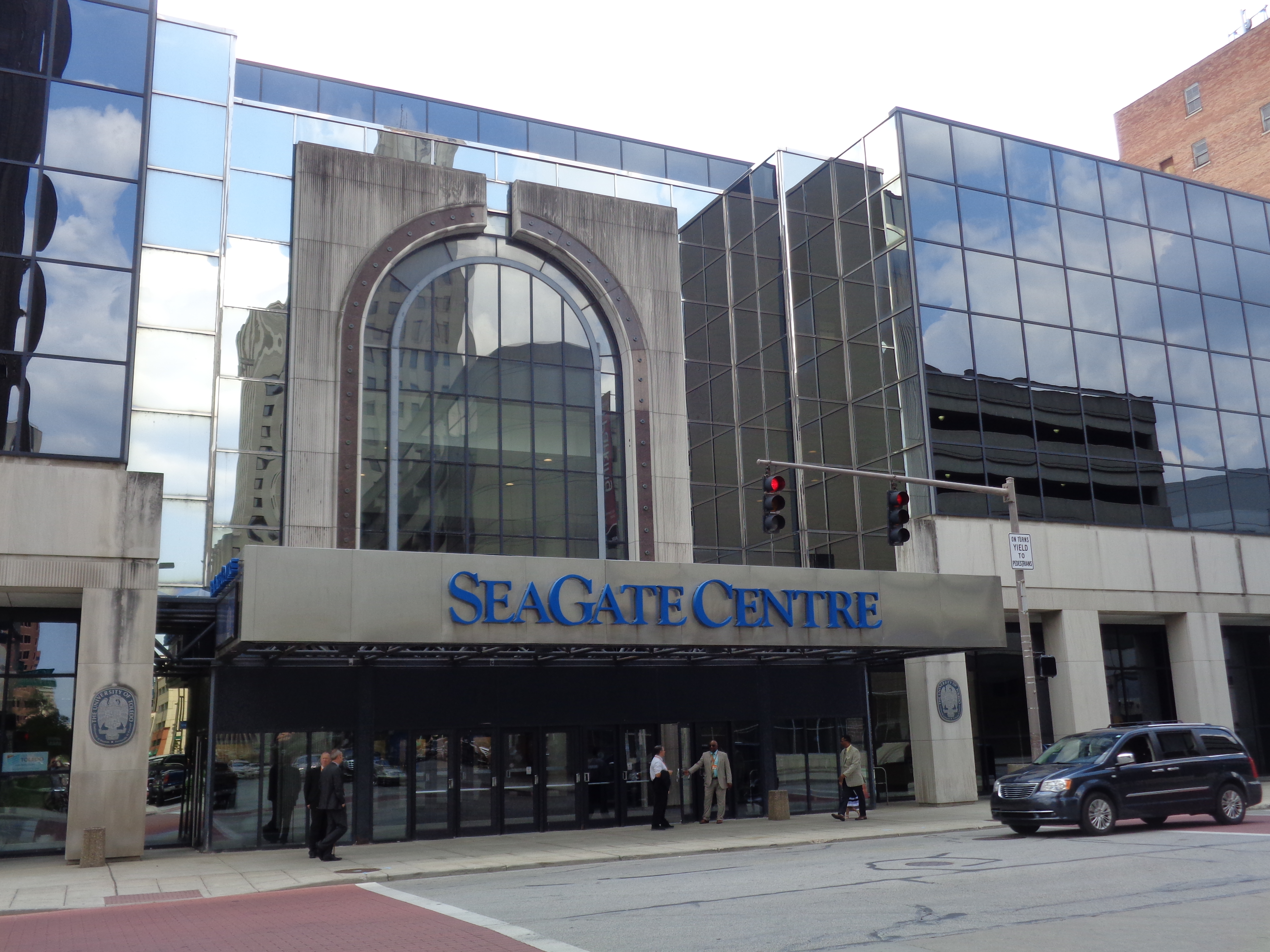 Photo showing the entrance to the Seagate Convention Center on Jefferson Avenue.